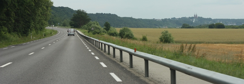 Road No 141 near Vilkija, Kaunas district, Lithuania.